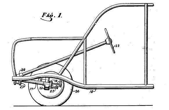 Automobile Chassis Construction; patent # 2,269, 452